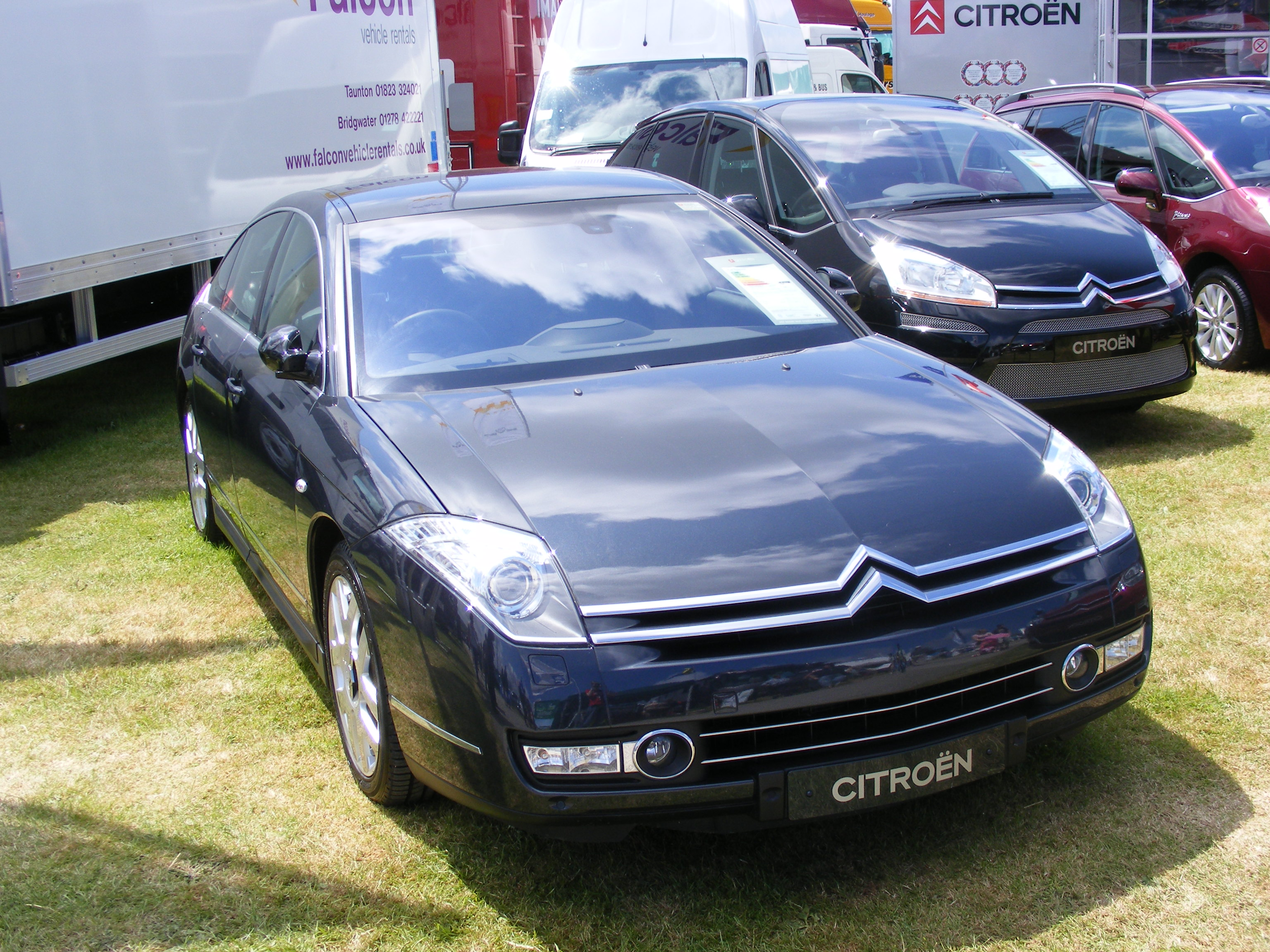 Photo taken at Royal Cornwall Show around july 2008 from Citroen stand.